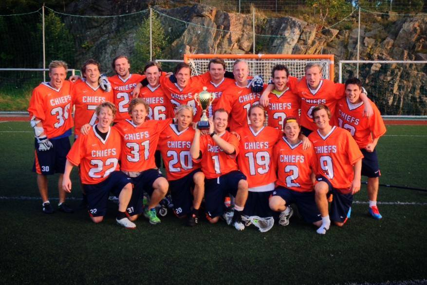 Norwegian Lacrosse team BI Chiefs' rooster for Kristiansand Invitational 2013